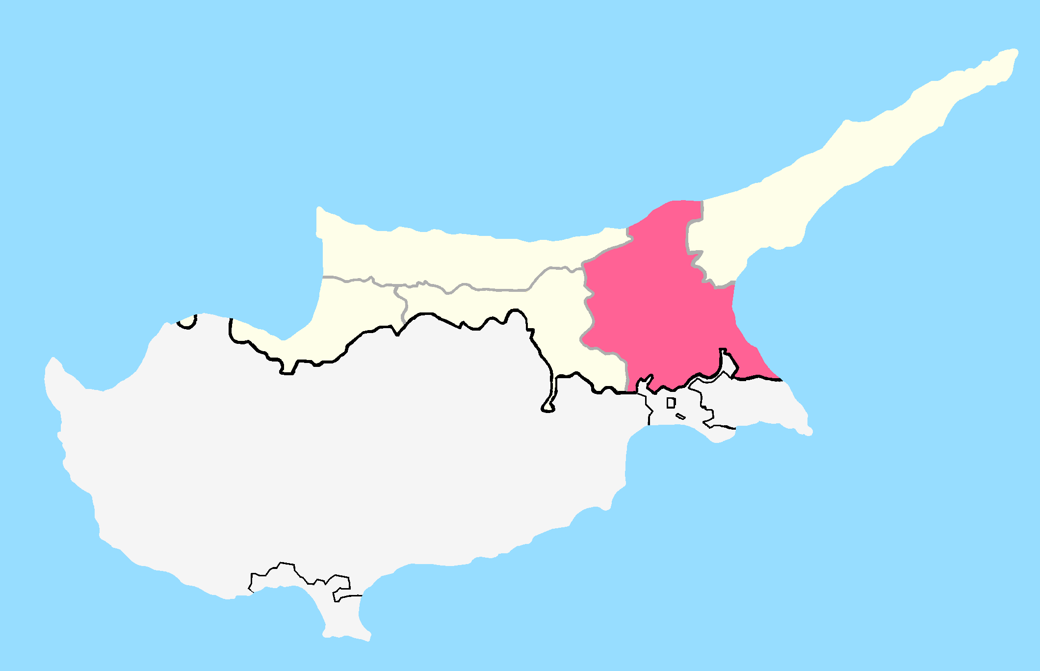 Gazimağusa District Map